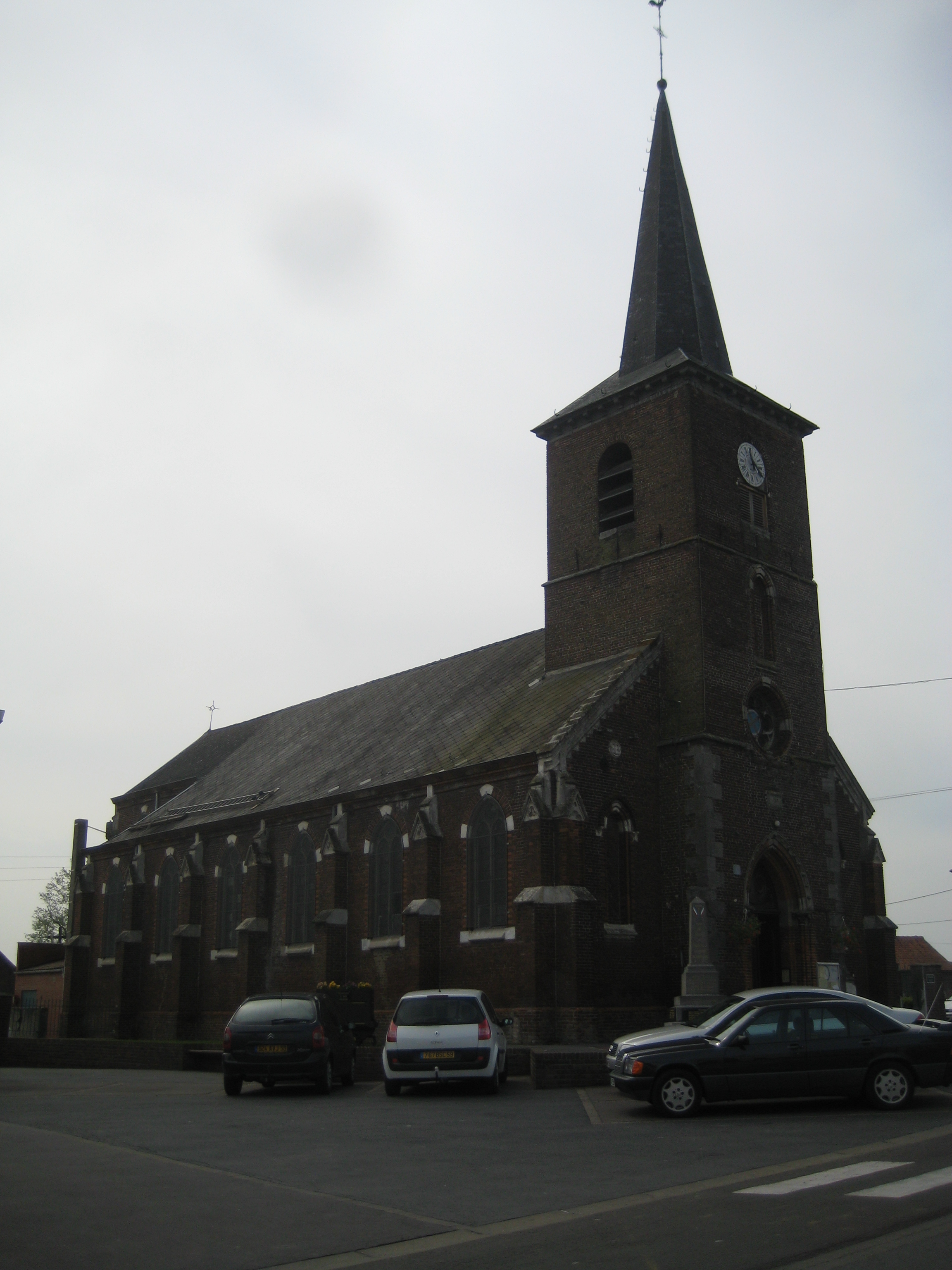 church of Thivencelle, Nord, France